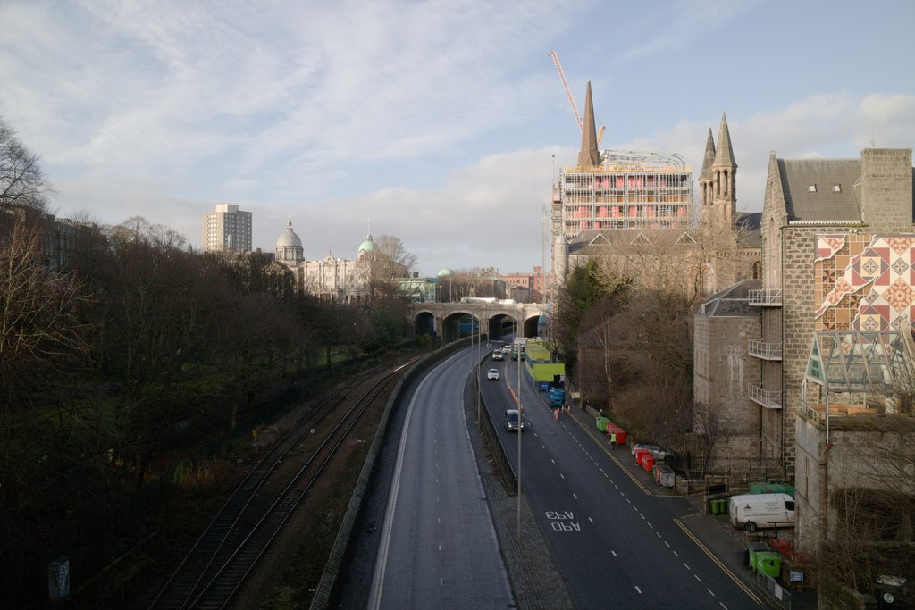 Denburn Road viewed from Union Bridge